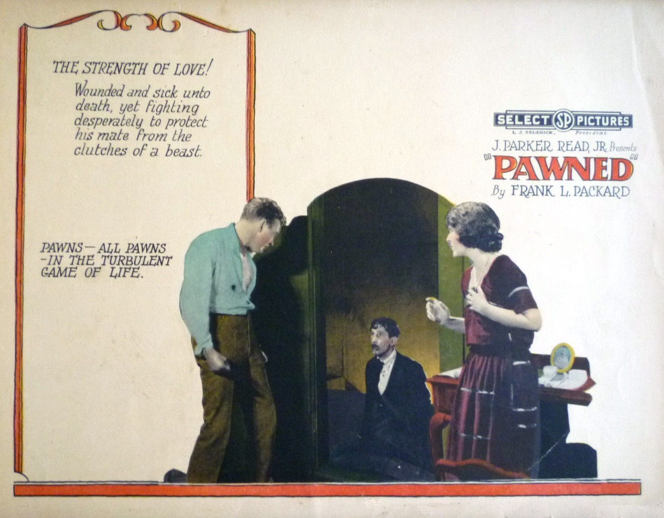 Lobby card for the American drama film Pawned (1922).